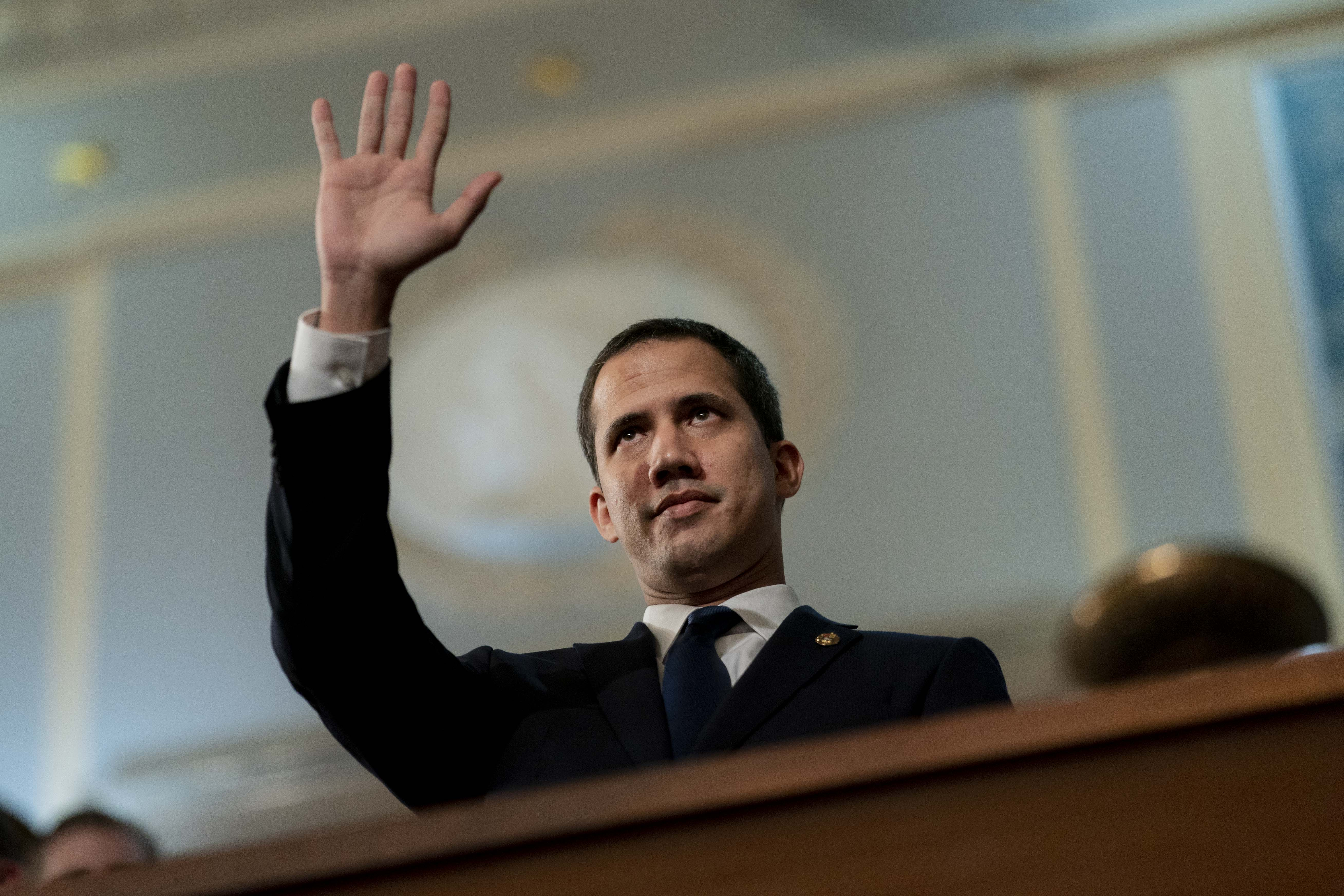 President Donald J. Trump introduces State of the Union Gallery guest Juan Guaido, recognized as the legitimate leader of Venezuela by the United States and over 50 countries, Tuesday, Feb. 4, 2020, during the State of the Union address at the U.S. Capitol in Washington, D.C. (Official White House Photo by D. Myles Cullen)